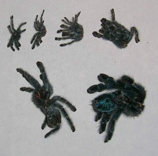 Caribena versicolor, syn. Avicularia versicolor, externals. 1 - 6 display spiders grows.